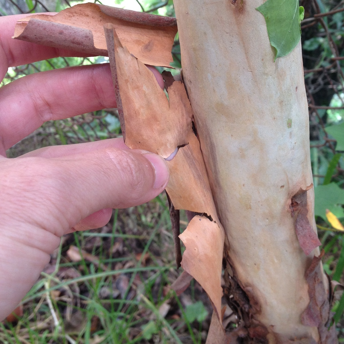 The bark of the Texas madrone (Arbutus xalapensis) peels paperlike.